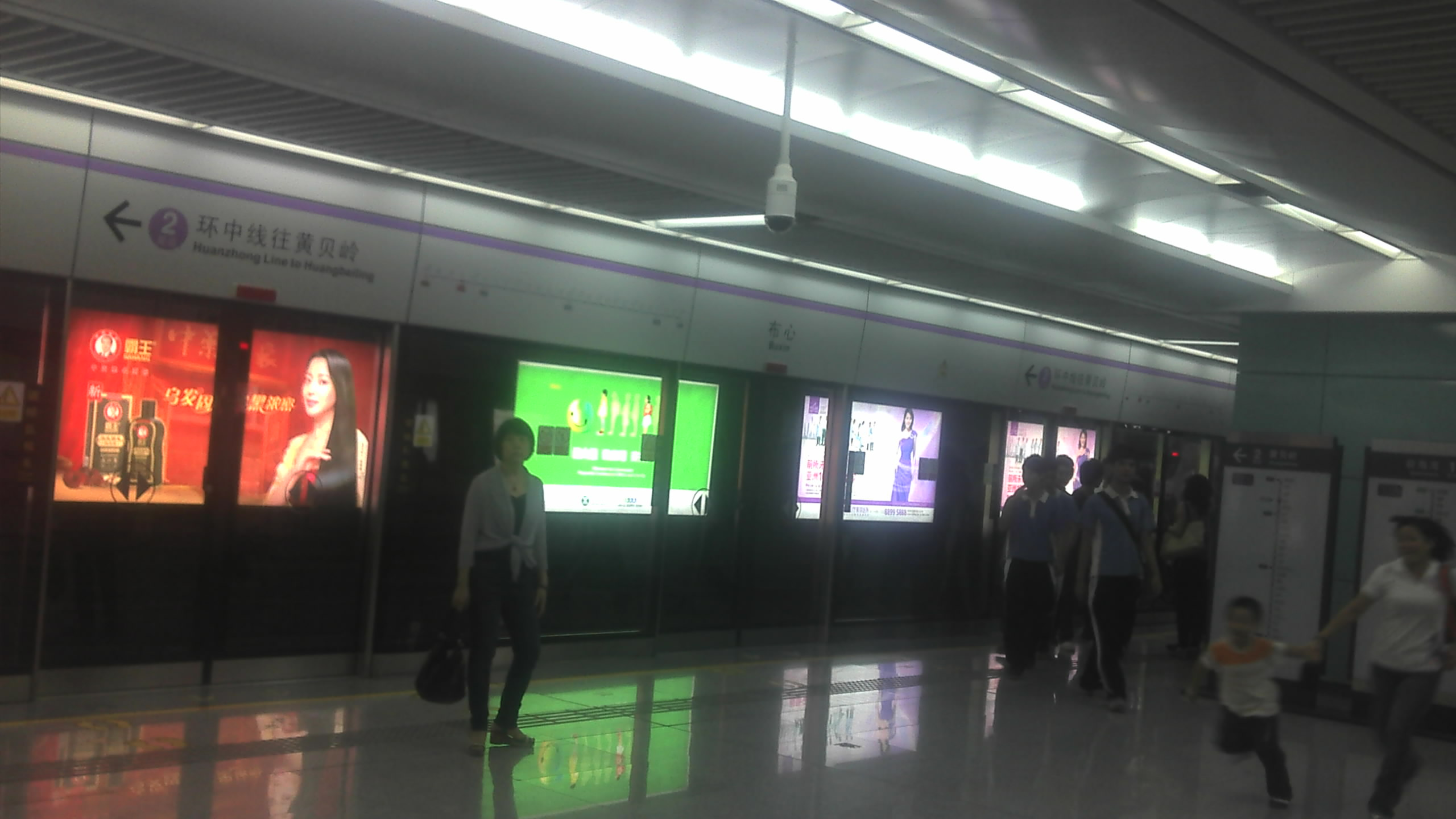 This photo was taken as Oct 14, 2011.